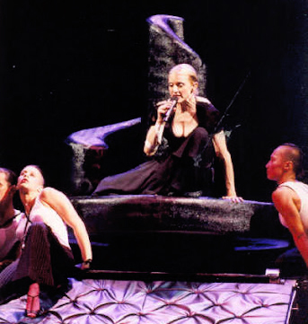 Picture taken at the concert